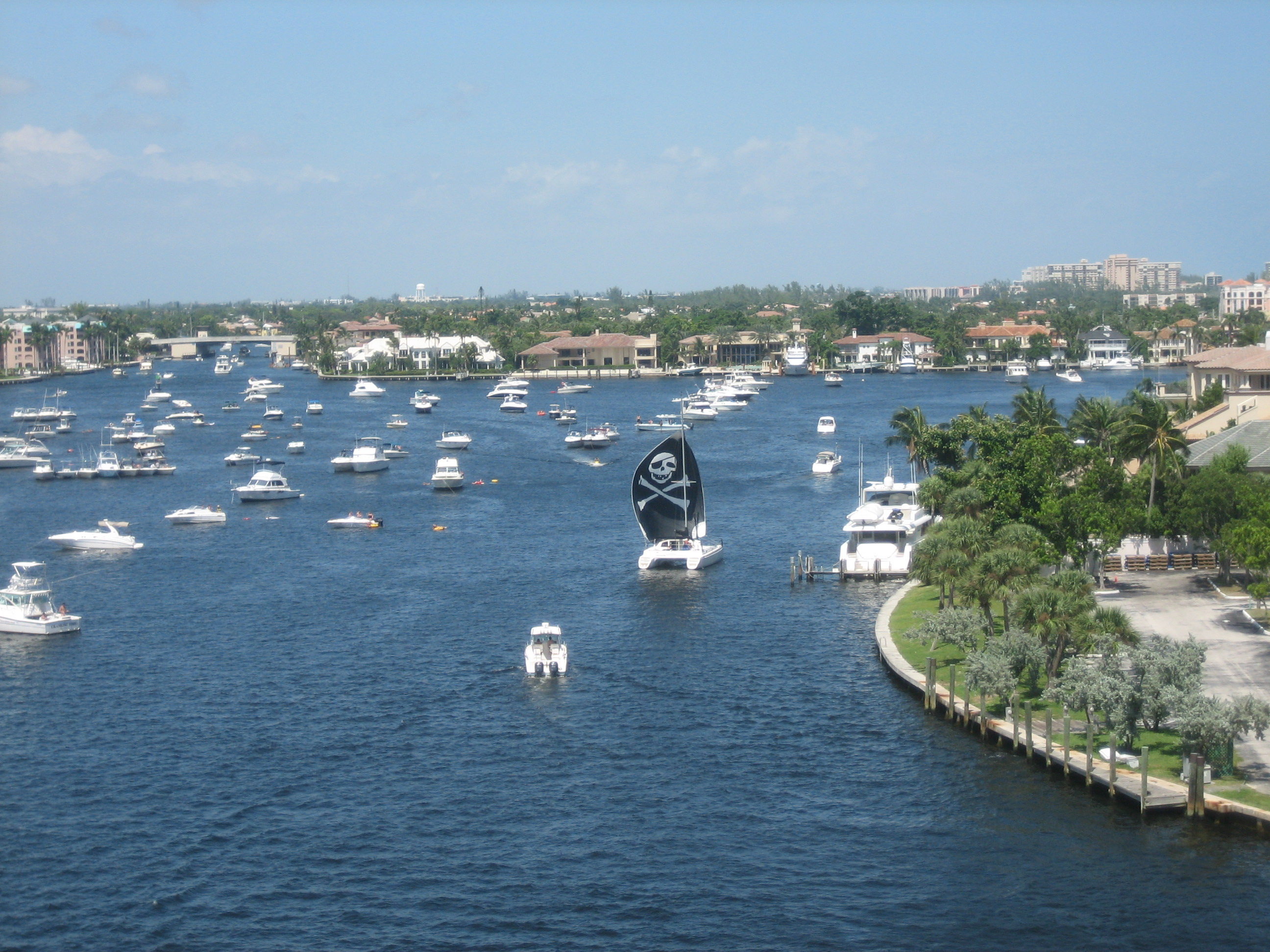 Boca Raton, Florida, October 2006